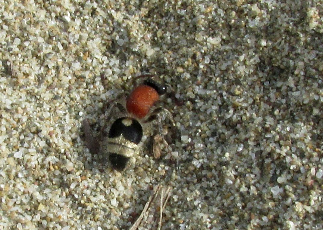 Nemka viduata